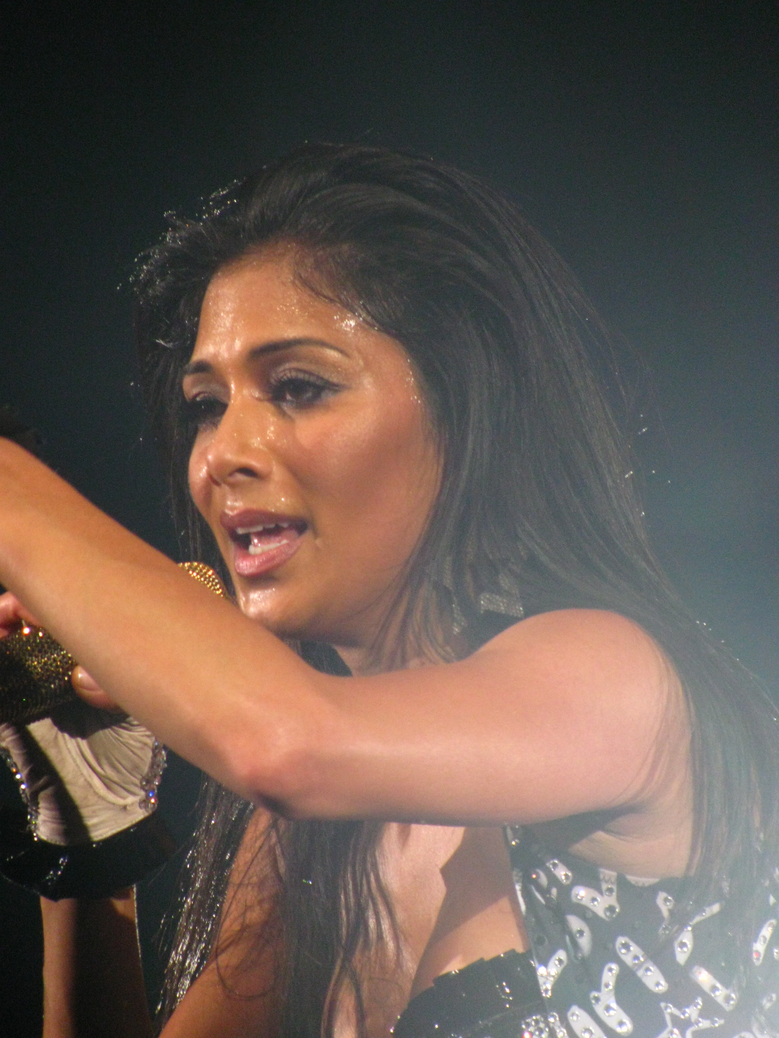 Nicole Scherzinger in The Circus, Mohegan Sun.